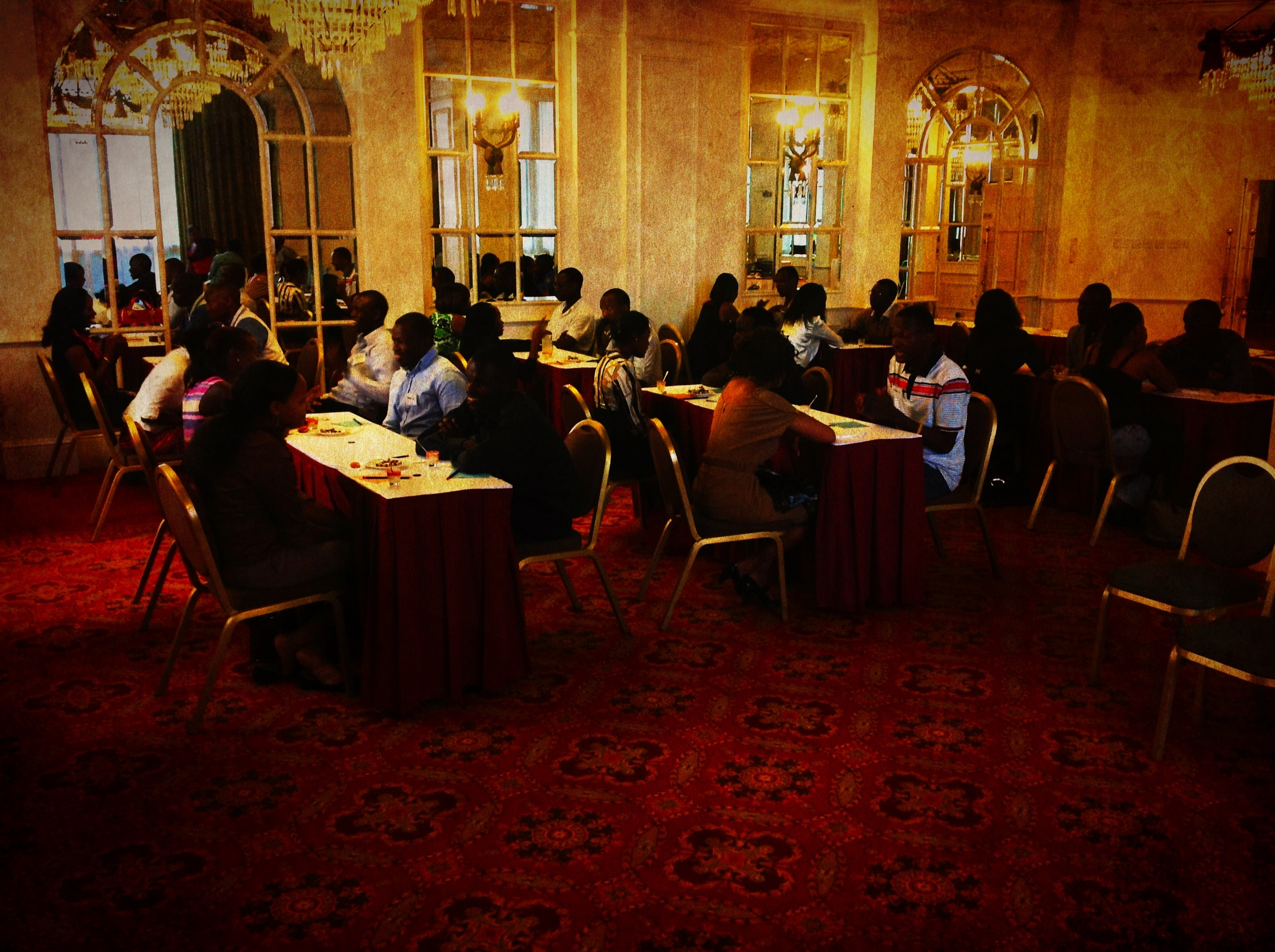 At the Hilton Hotel just after Valentines but the love is still flowing